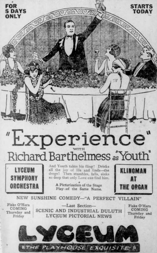 Newspaper advertisement for the American film Experience (1921) with Richard Barthelmess, on page 5 of the October 29, 1921 Duluth Herald.